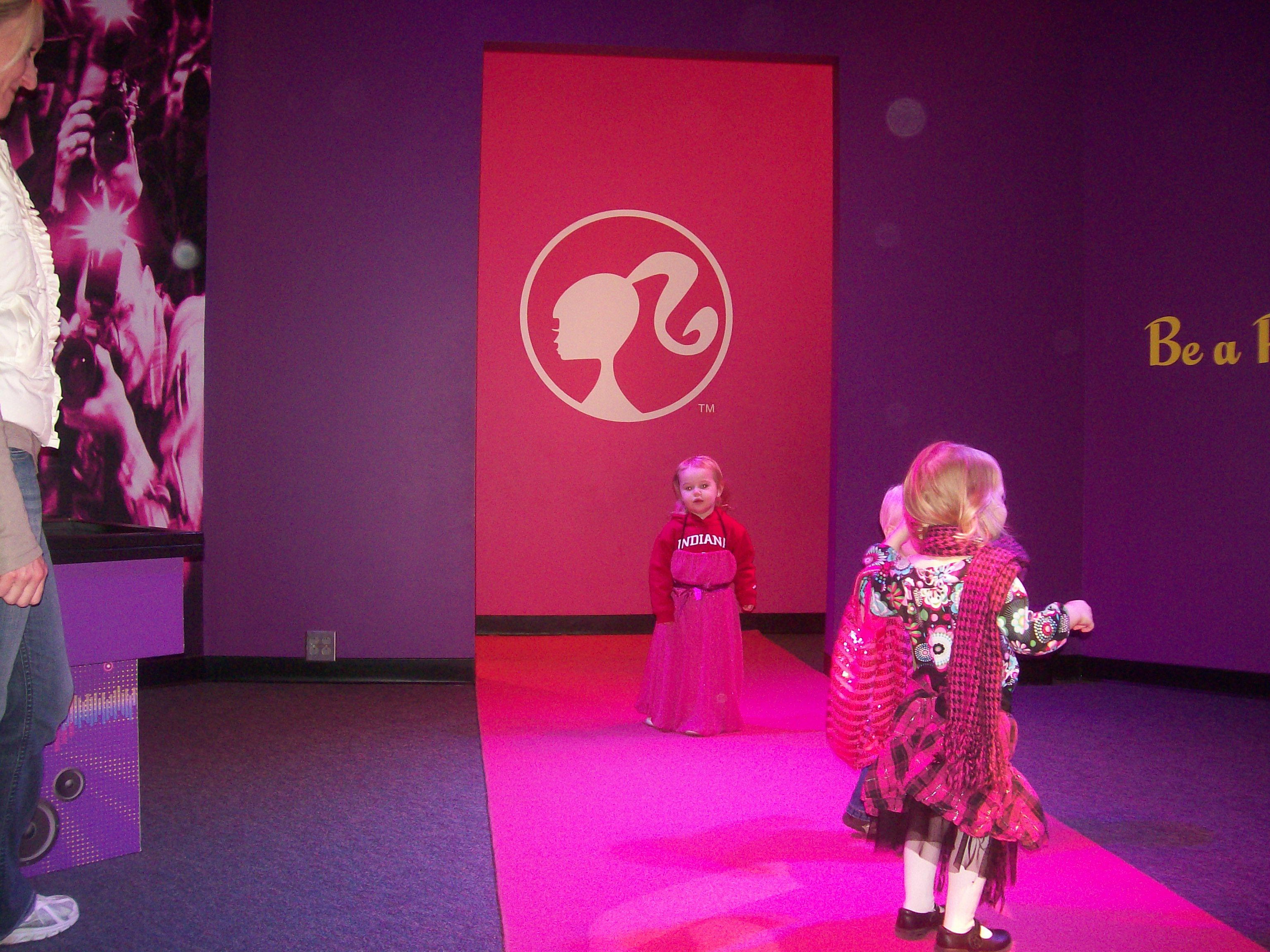 Picture of children going down the Fashion runway in dress up clothes from The Children's Museum of Indianapolis